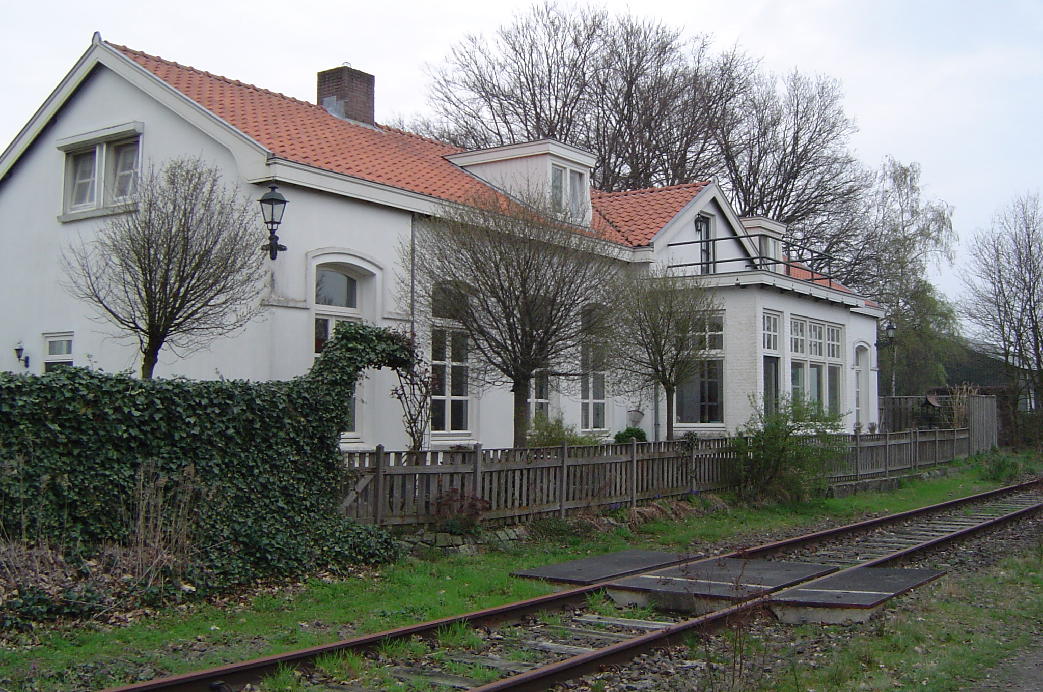 Former railwaystation at Schijndel, the Netherlands, in 2011